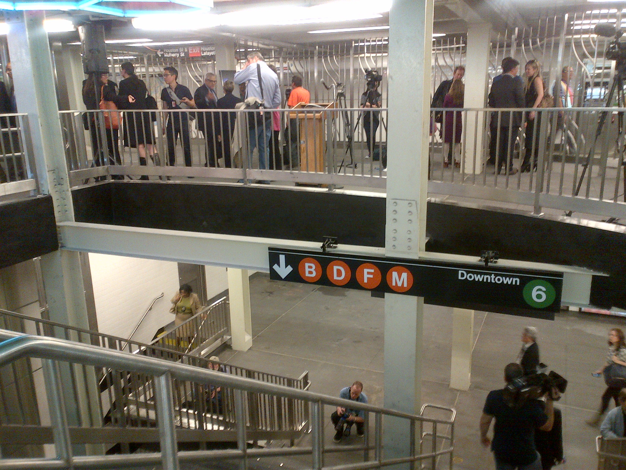 On September 25, 2012, the MTA formally opened the new transfer between the B, D, F and M Lines at Broadway-Lafayette St. with the uptown 6 Line at Bleecker St.